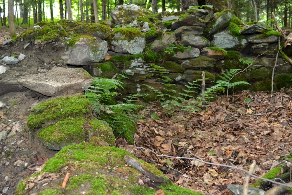 Potash ovens were used when wood clearing was underway. A natural fertilizer, potash was extracted from the ashes of the burnt wood. Only some parts of the two potash ovens built around 1820-1830 in Kinnear's Mill (Québec, Canada) remain visible.